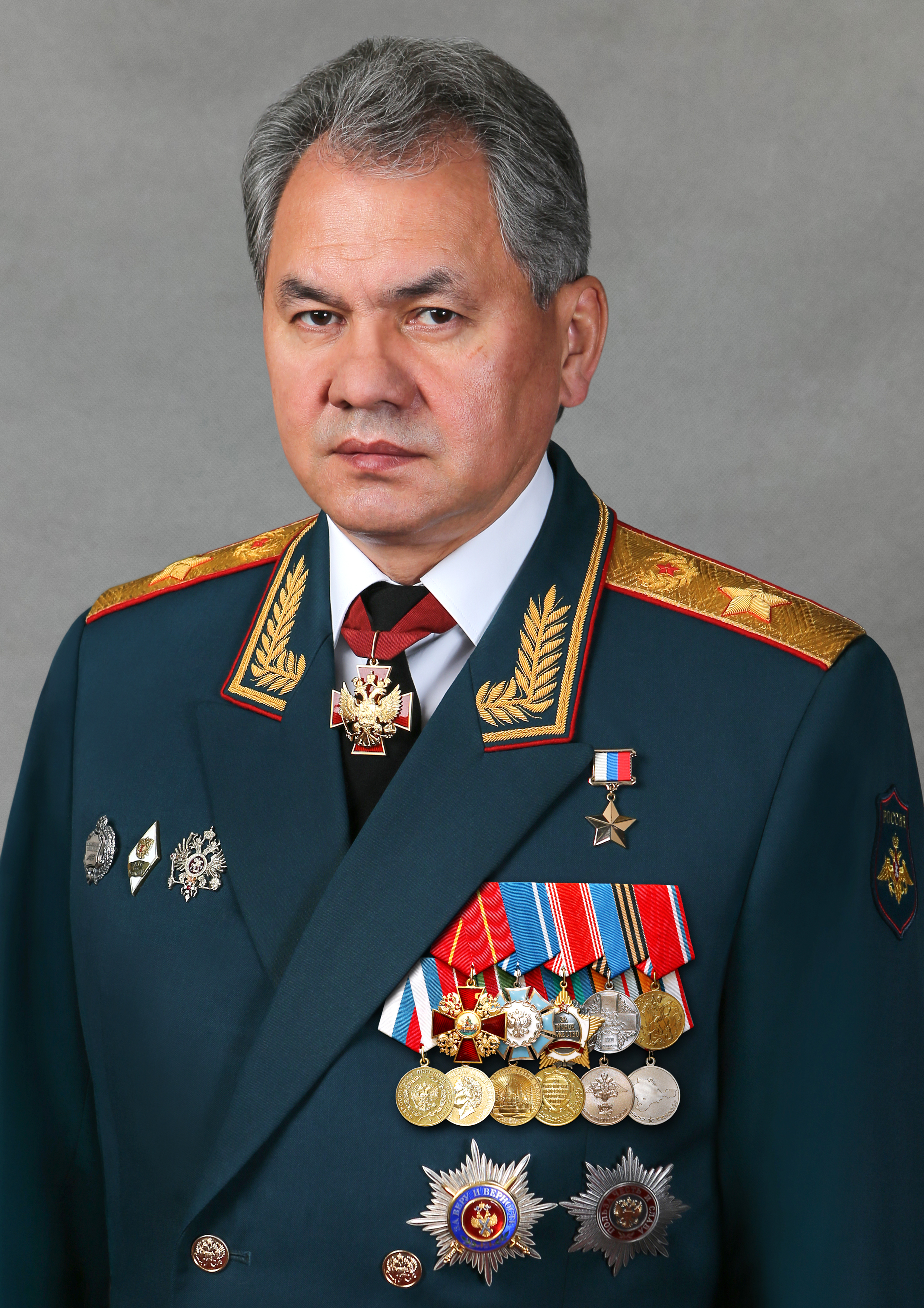 Official portrait of Sergey Shoigu with awards.